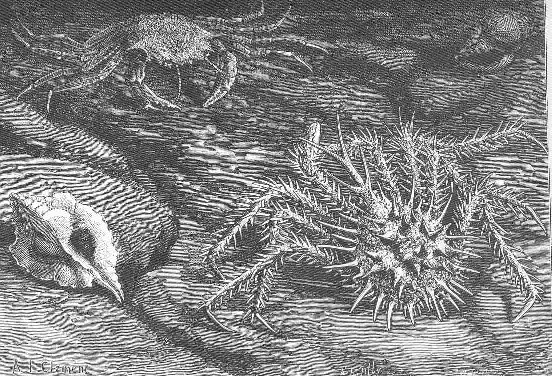 Subject: Lithodes, Geryonidae Tag: Shellfish